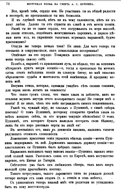 Eastern poem to death of Pushkin from Russkaya Starina, Page 78